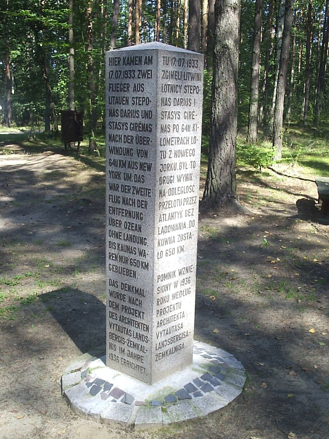 Pszczelnik, Poland